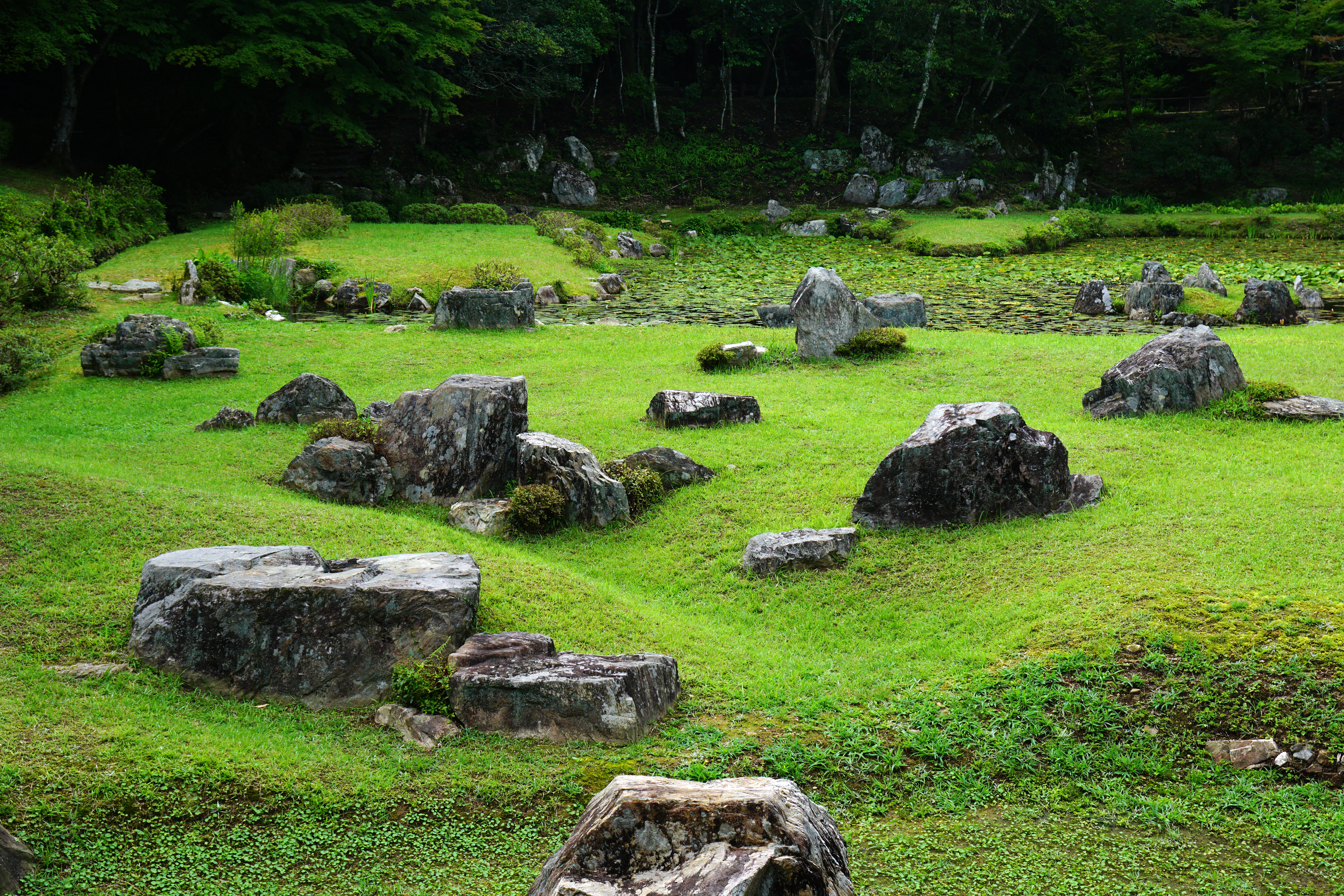 Jōei-ji in Yamaguchi, Yamaguchi prefecture, Japan.